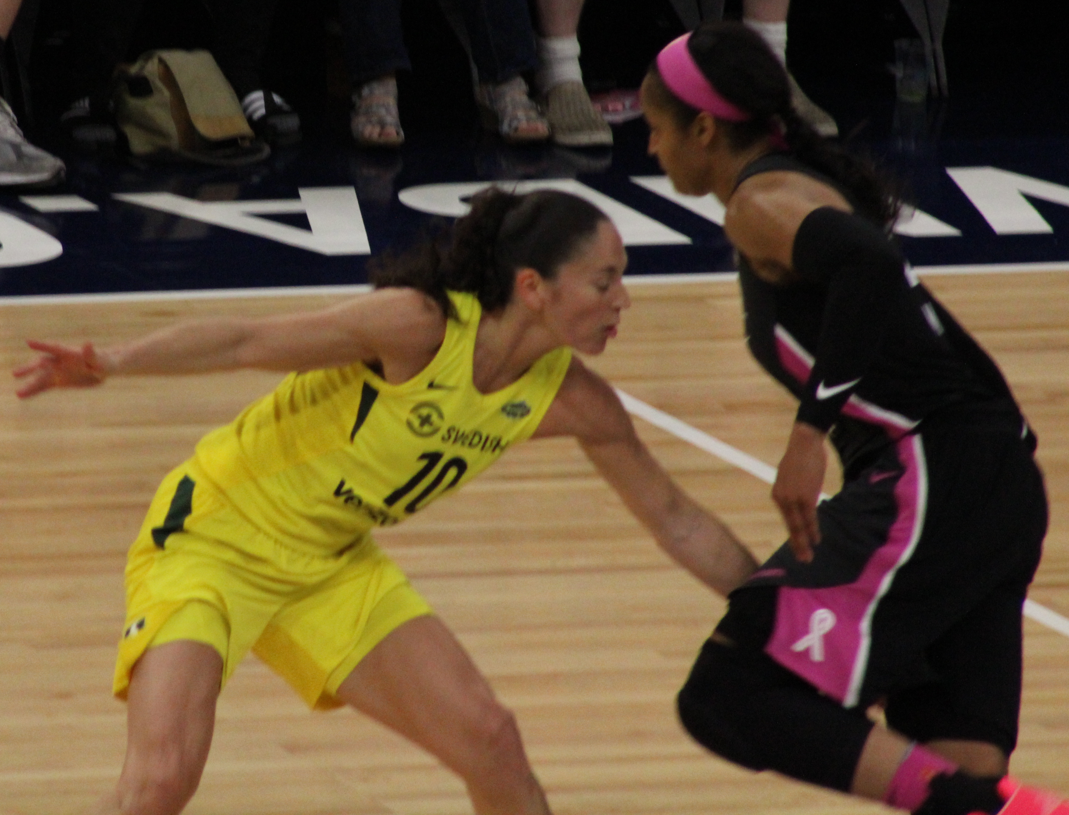 Sue Bird of the Seattle Storm guarding Maya Moore of the Minnesota Lynx